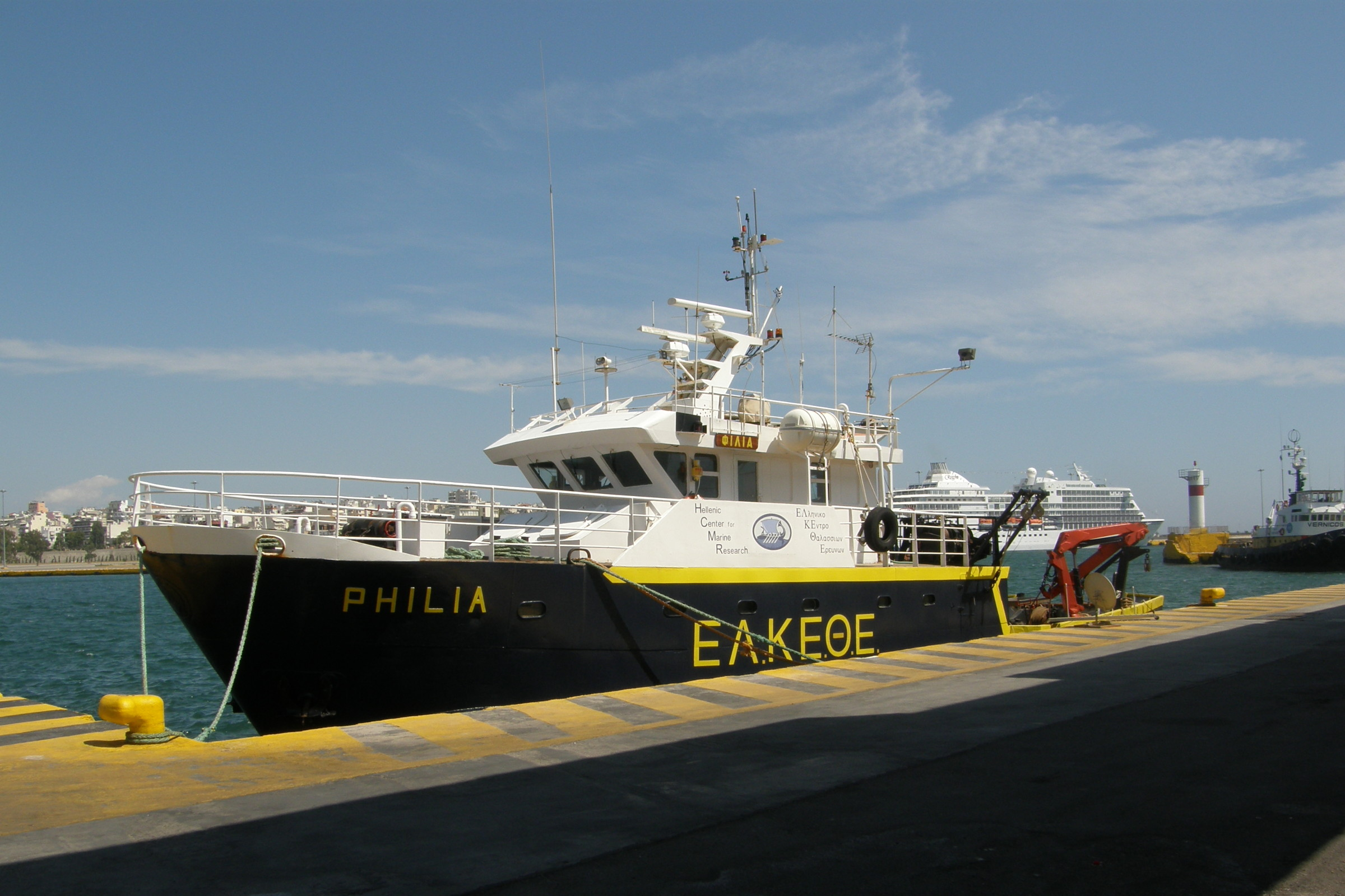 Marine/fisheries research vessel F/R Filia, SW2204, (IMO:8834342) of the Hellenic Center for Marine Research (HCMR - ΕΛΚΕΘΕ) in Piraeus port (2008-06-07)